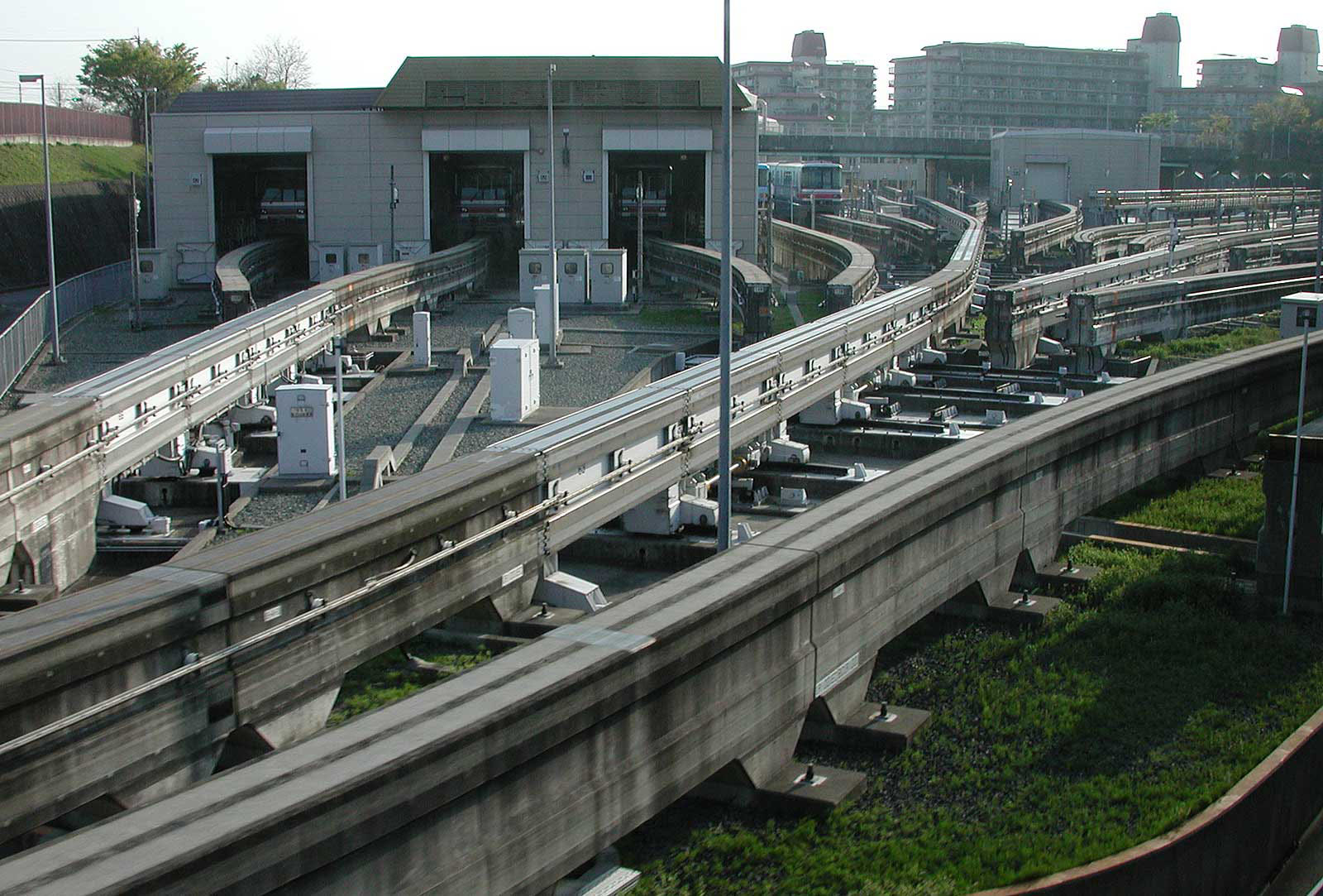 Switches at the Osaka monorail depot